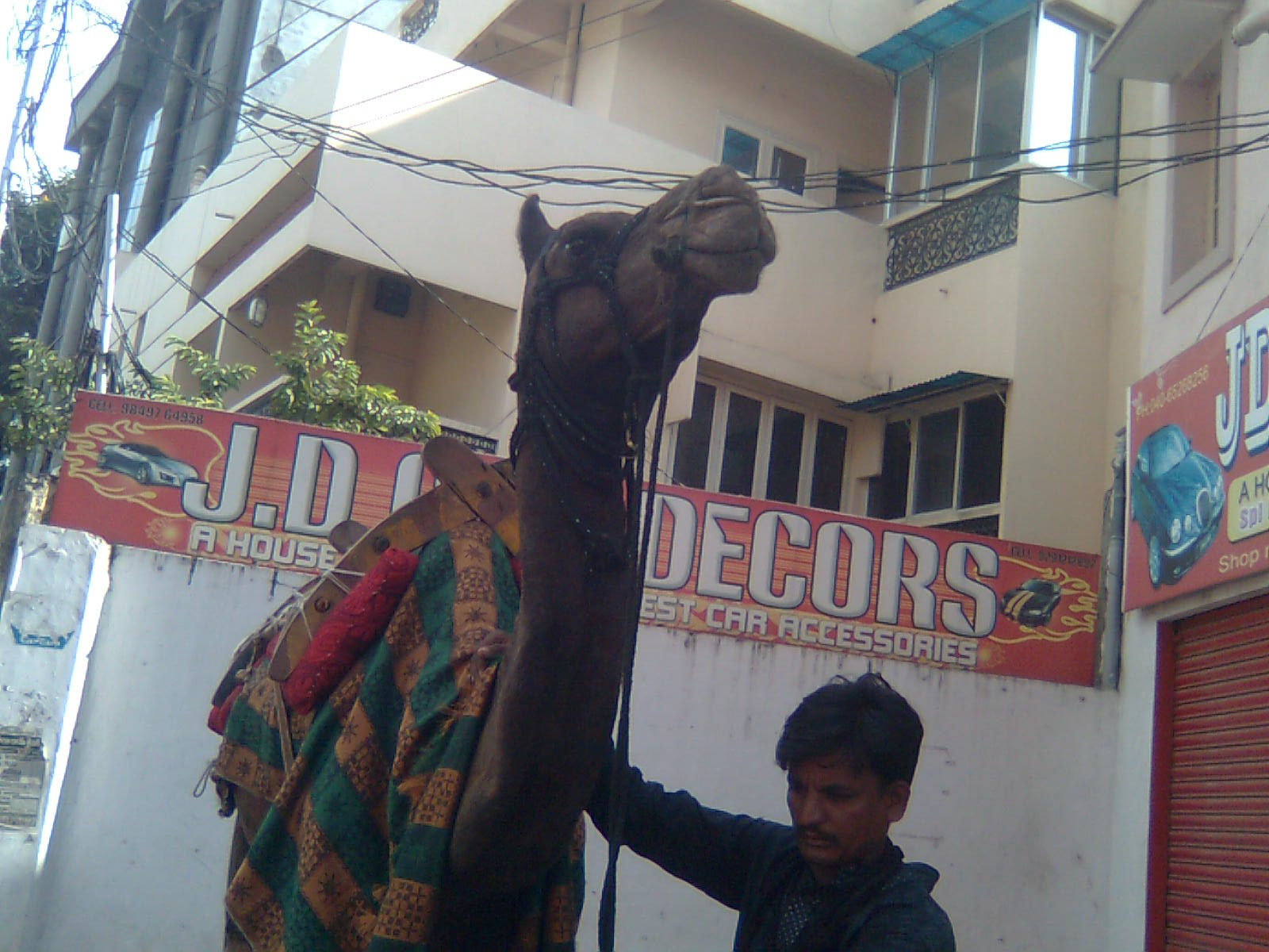 Owner and his Camel - Use of Camels as amusement in the cities across India.